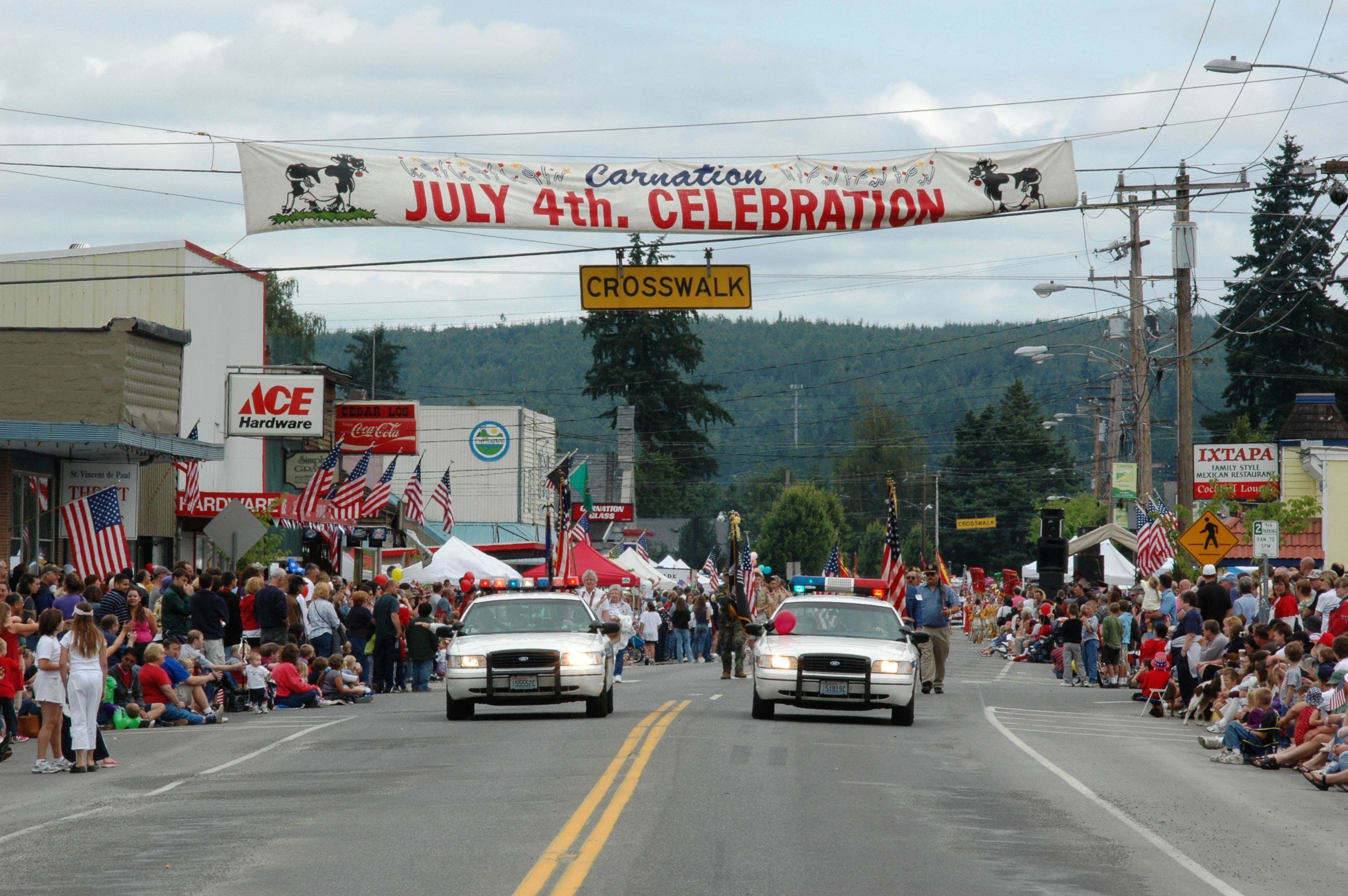 Parade on main street (looking north on SR 203) in Carnation, Washington, July 4, 2004